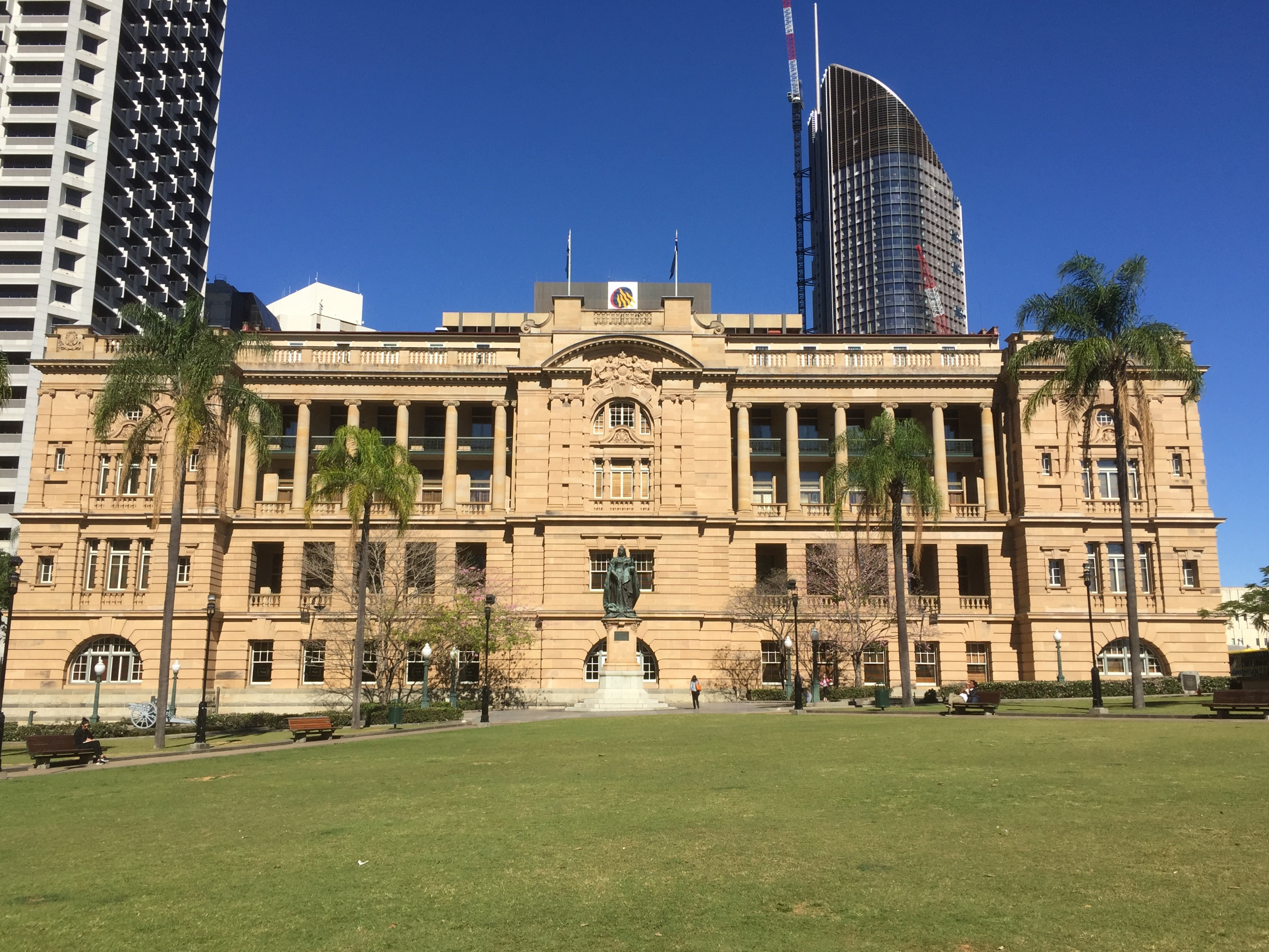 Land Administration Building, Queens Gardens facade, Brisbane